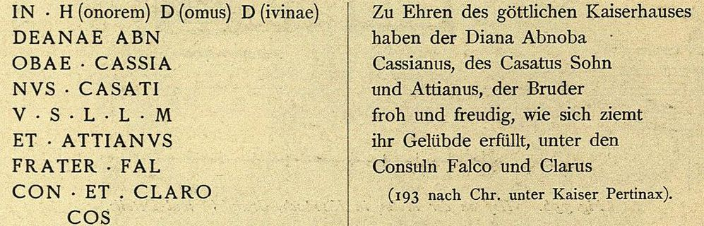 Roman stele found in Mühlenbach, Baden-Württemberg